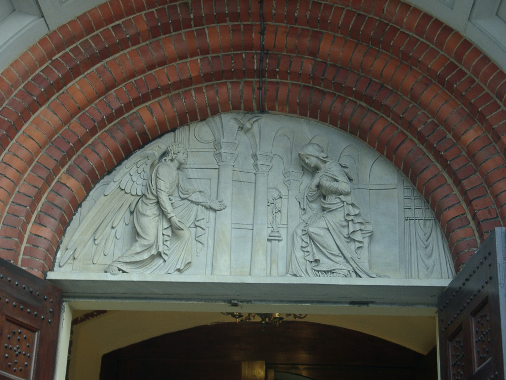 Sculpture in church Ostrów Wielkopolski